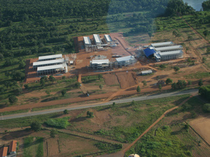 UNIRG - Campus 3 em construçao